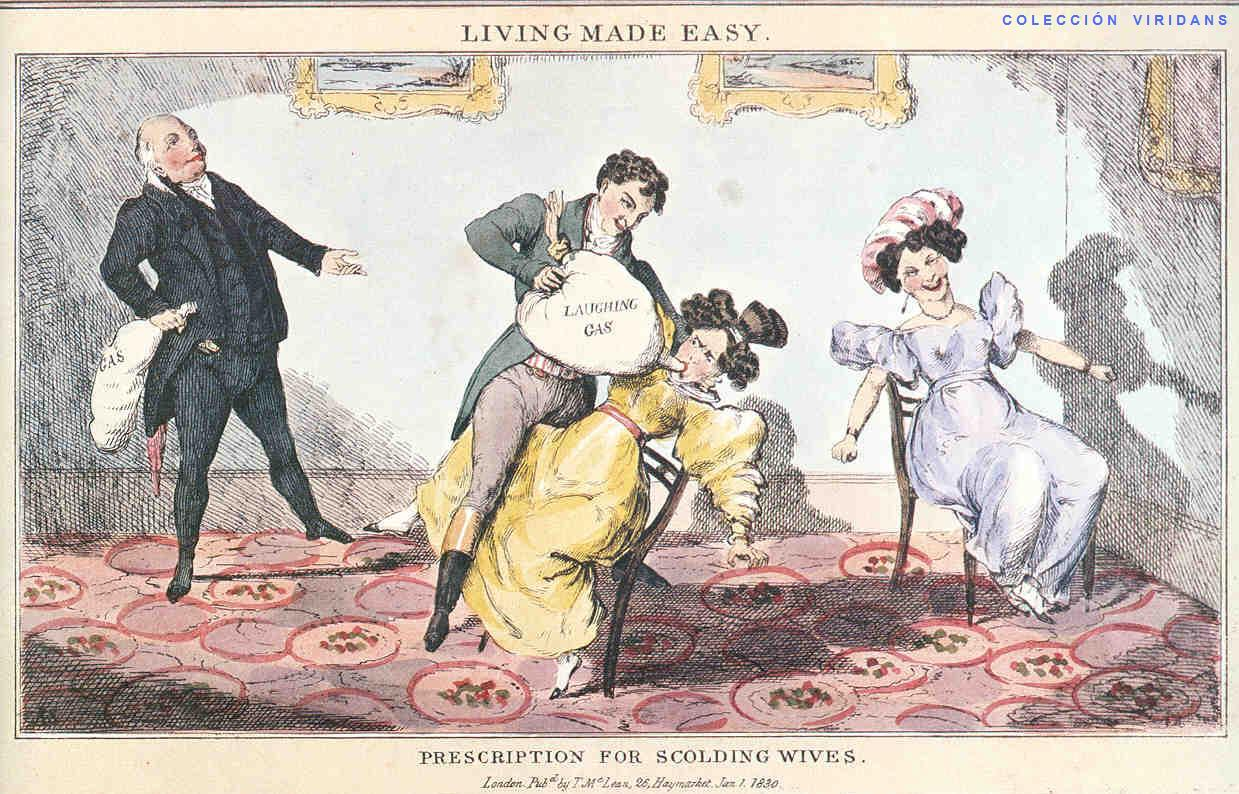 Satirical cartoon showing a Royal Institution lecture on pneumatics with Davy and Count Rumford